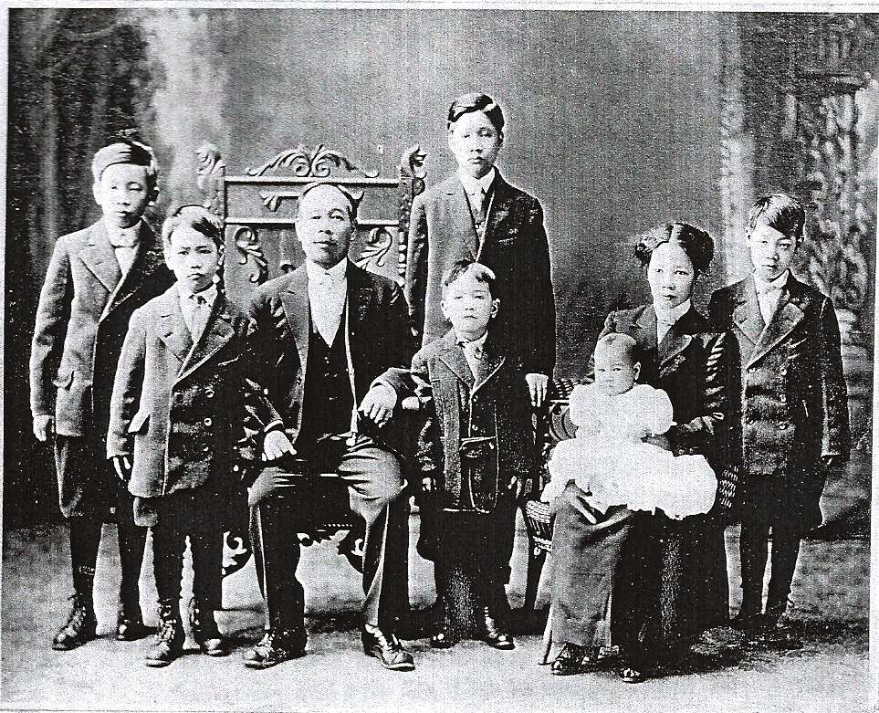 Portrait of Wong Fook On (William Hope Wong), Chun Yow, and their children. One of the children is future aviator Henry Hope Wong.